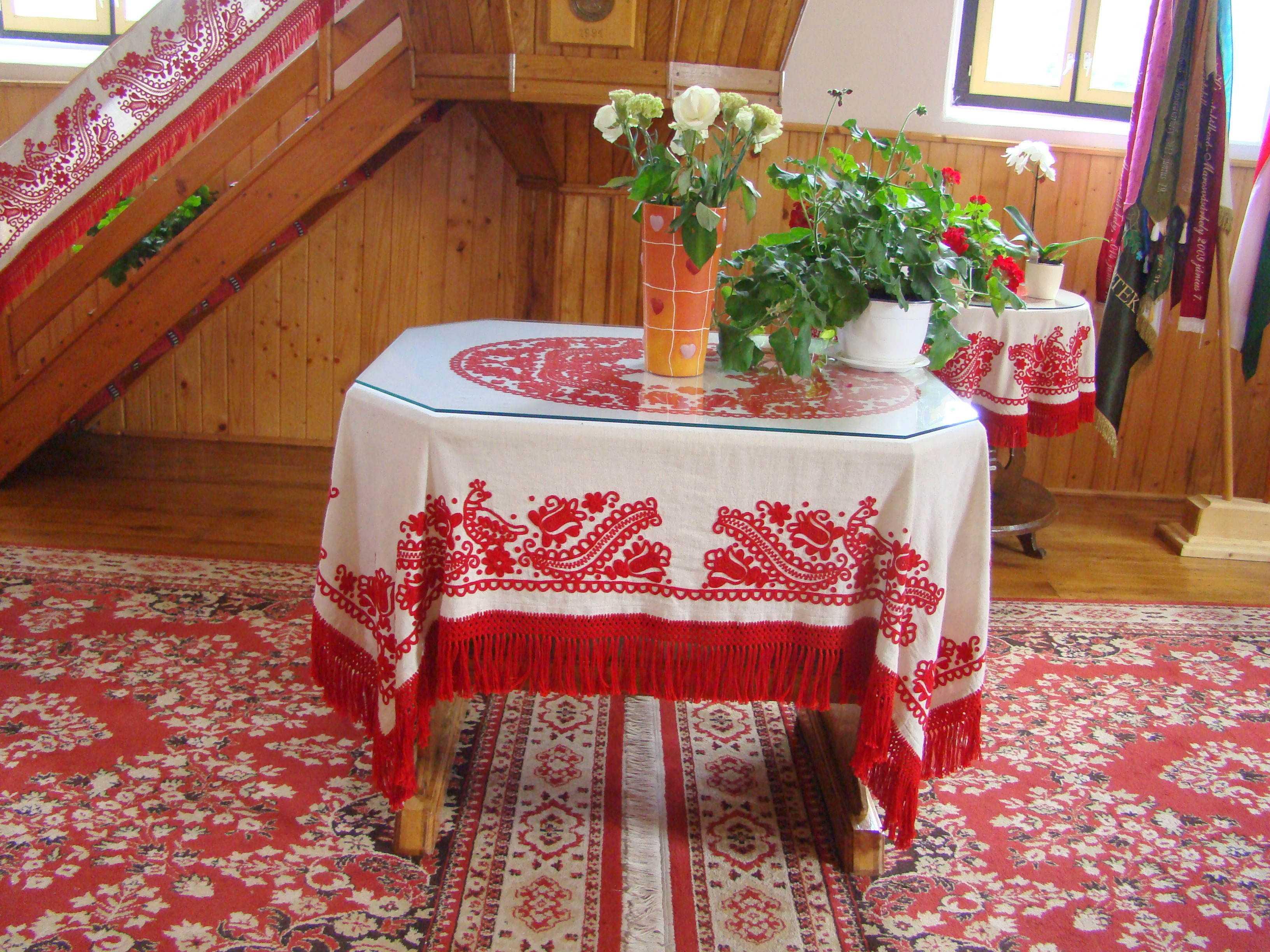 Reformed church in Sâncraiu de Mureș, Mureș county, Romania